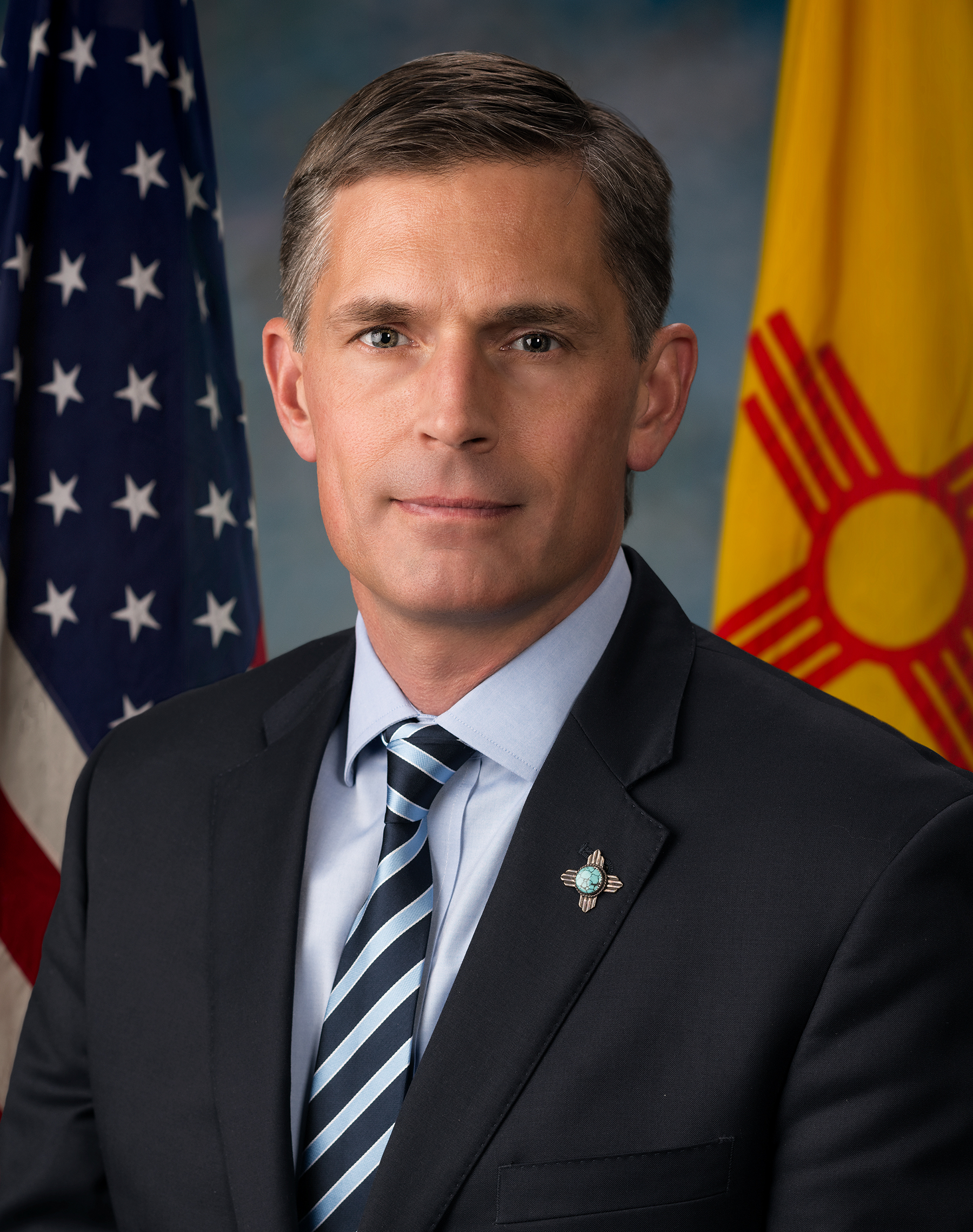 2019 headshot of US Senator Martin Heinrich